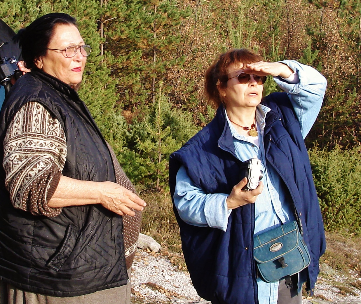 доц.Стефанка Иванова и проф.Ана Радунчева на теренно проучване на Белинташ през 2005 г.